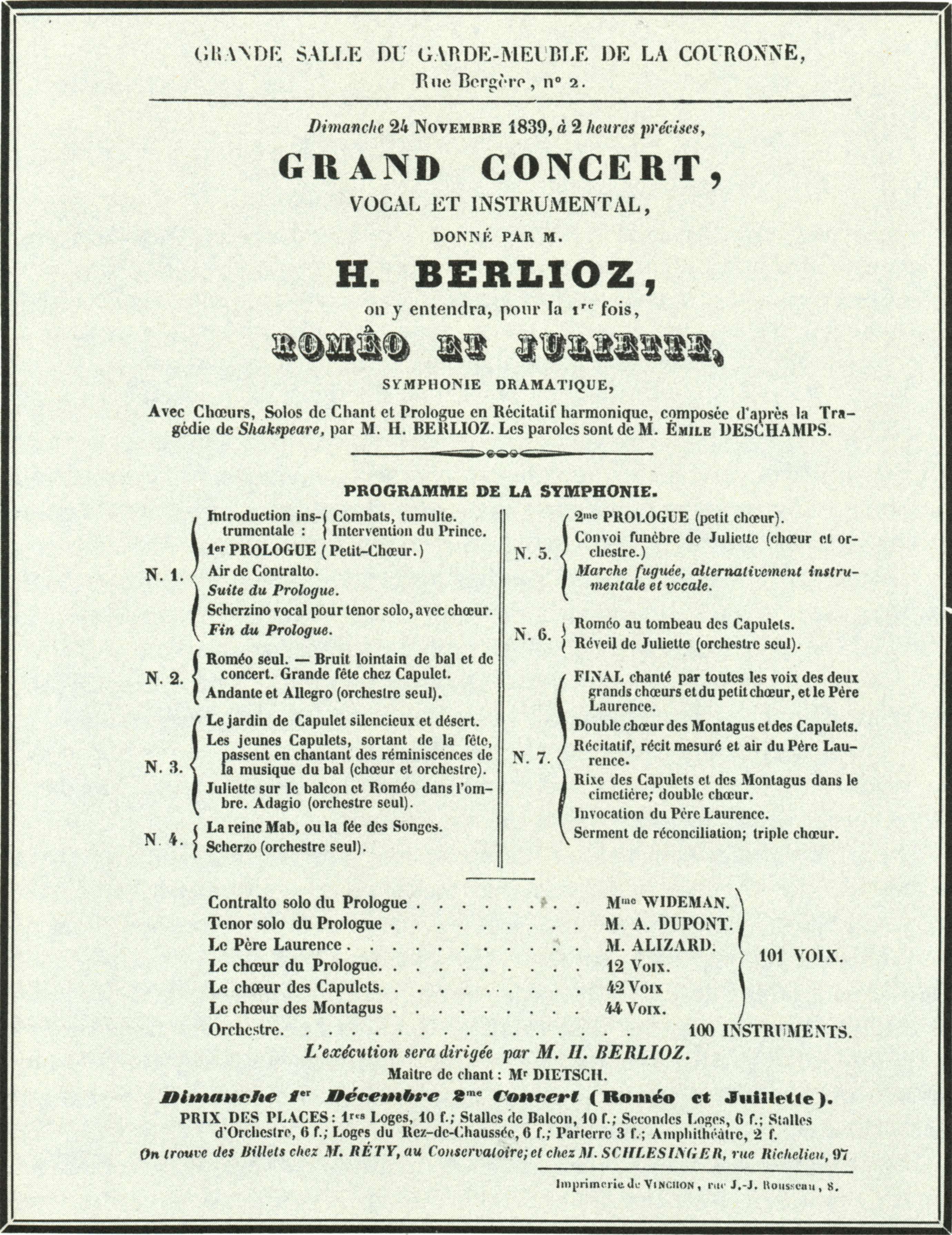 Handbill for the first performance (24 November 1839) of the dramatic symphony Roméo et Juliette by Hector Berlioz.